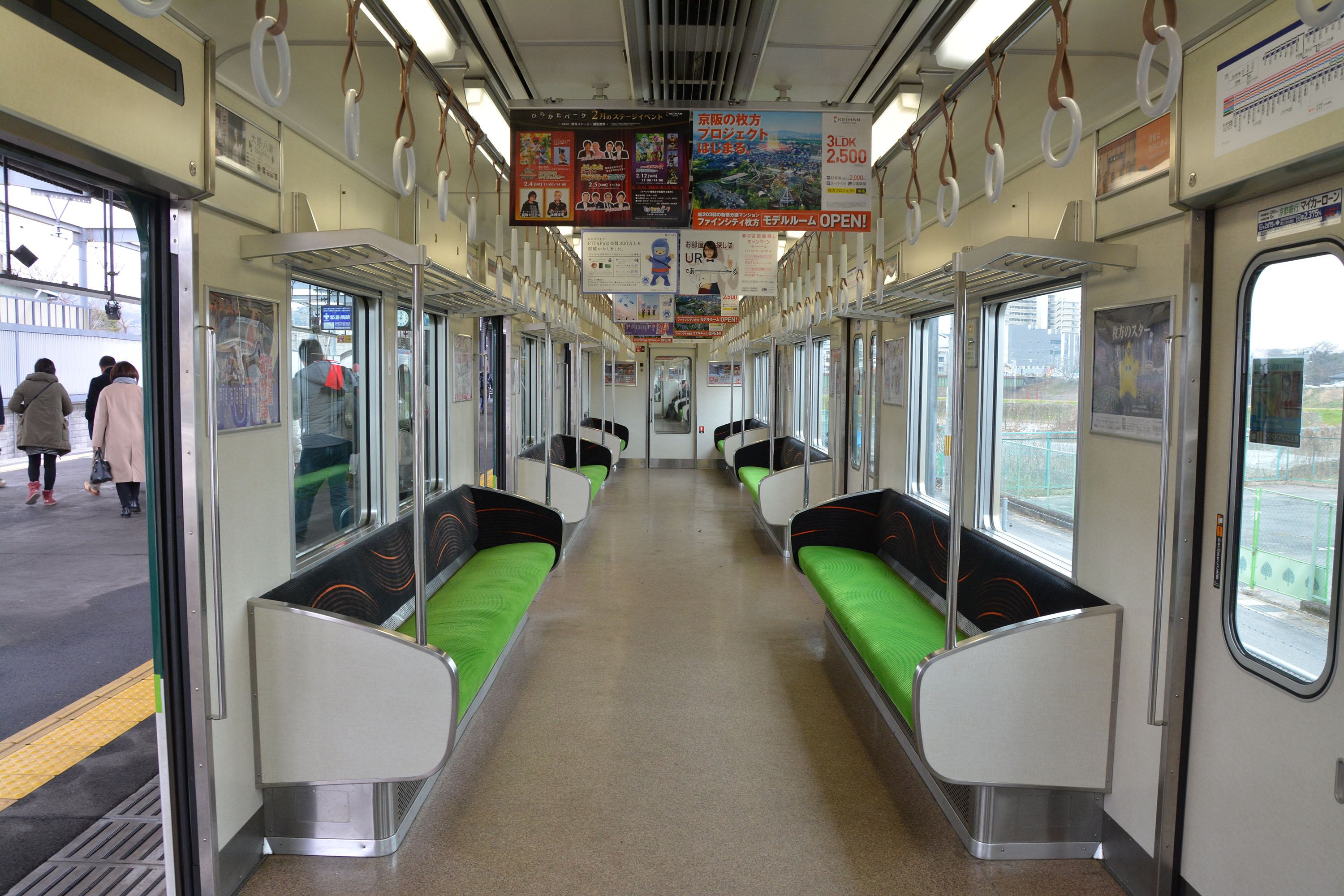 The interior of a Keihan Electric Railway 10000 series EMU